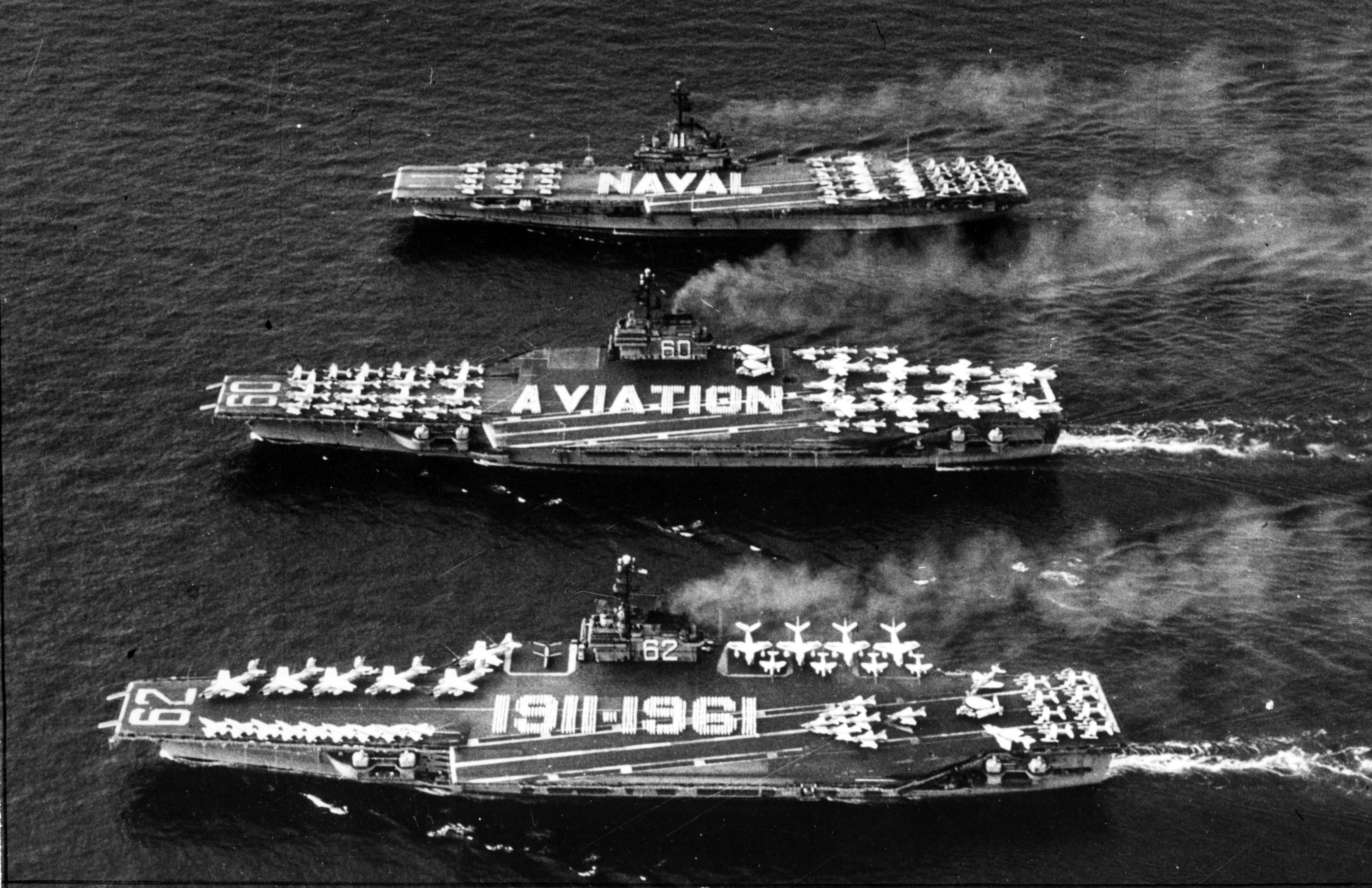 The U.S. Navy aircraft carriers USS Independence (CVA-62), USS Saratoga (CVA-60), and USS Intrepid (CVA-11) (listed from bottom to top) underway in 1961, with crewmen paraded on deck in a spellout commemorating the 50th birthday of U.S. naval aviation.